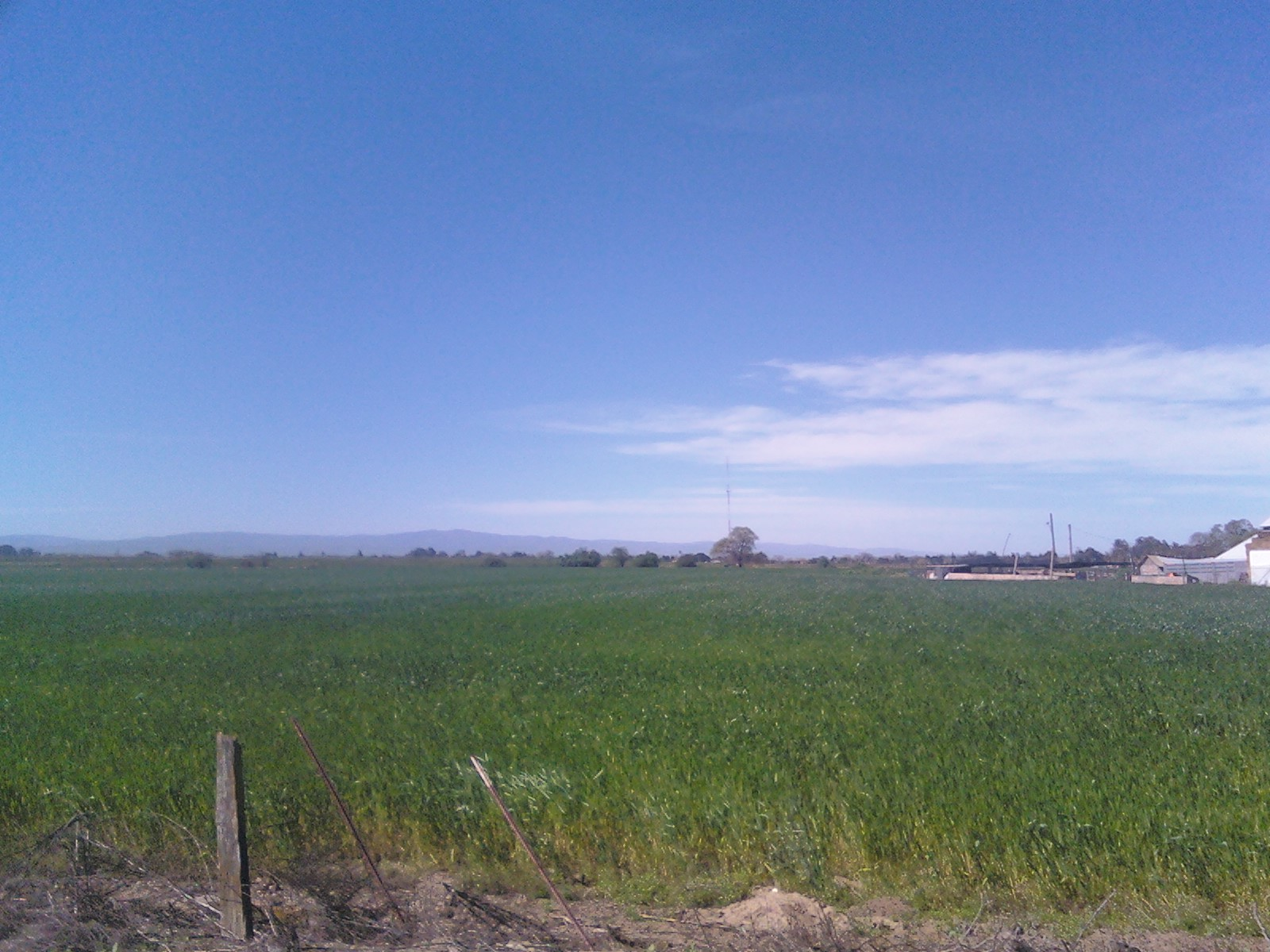 Photo of Riverdale Park, CA.